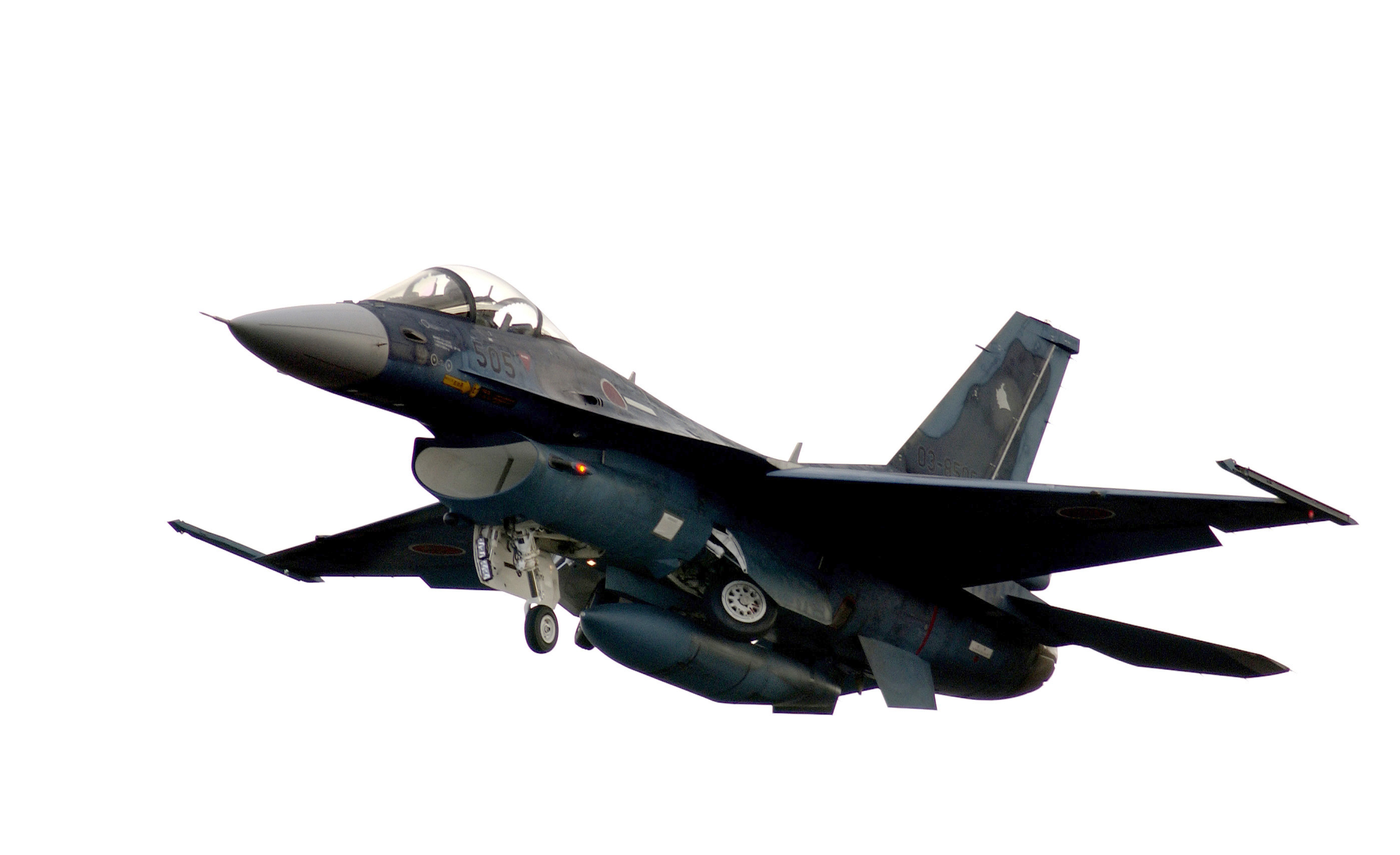 F-2A (505) of 3 Sqn takes off Misawa Air Base during Exercise Keen Sword '05, on Nov. 16, 2004. (U.S. Air Force Photo by Staff Sgt. Quinton T. Burris/Released)